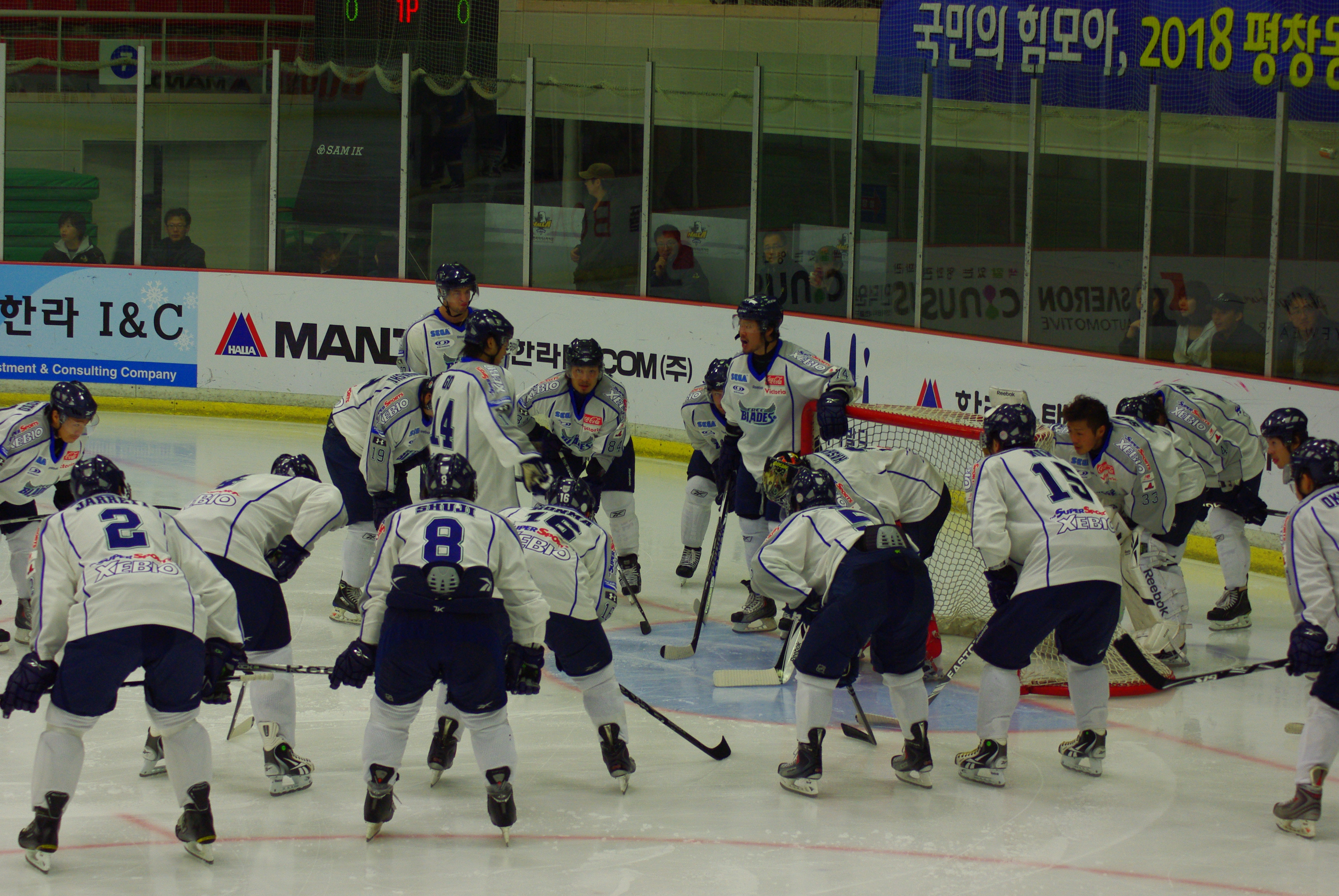 Tohoku Free Blades pre-game in Anyang, South Korea